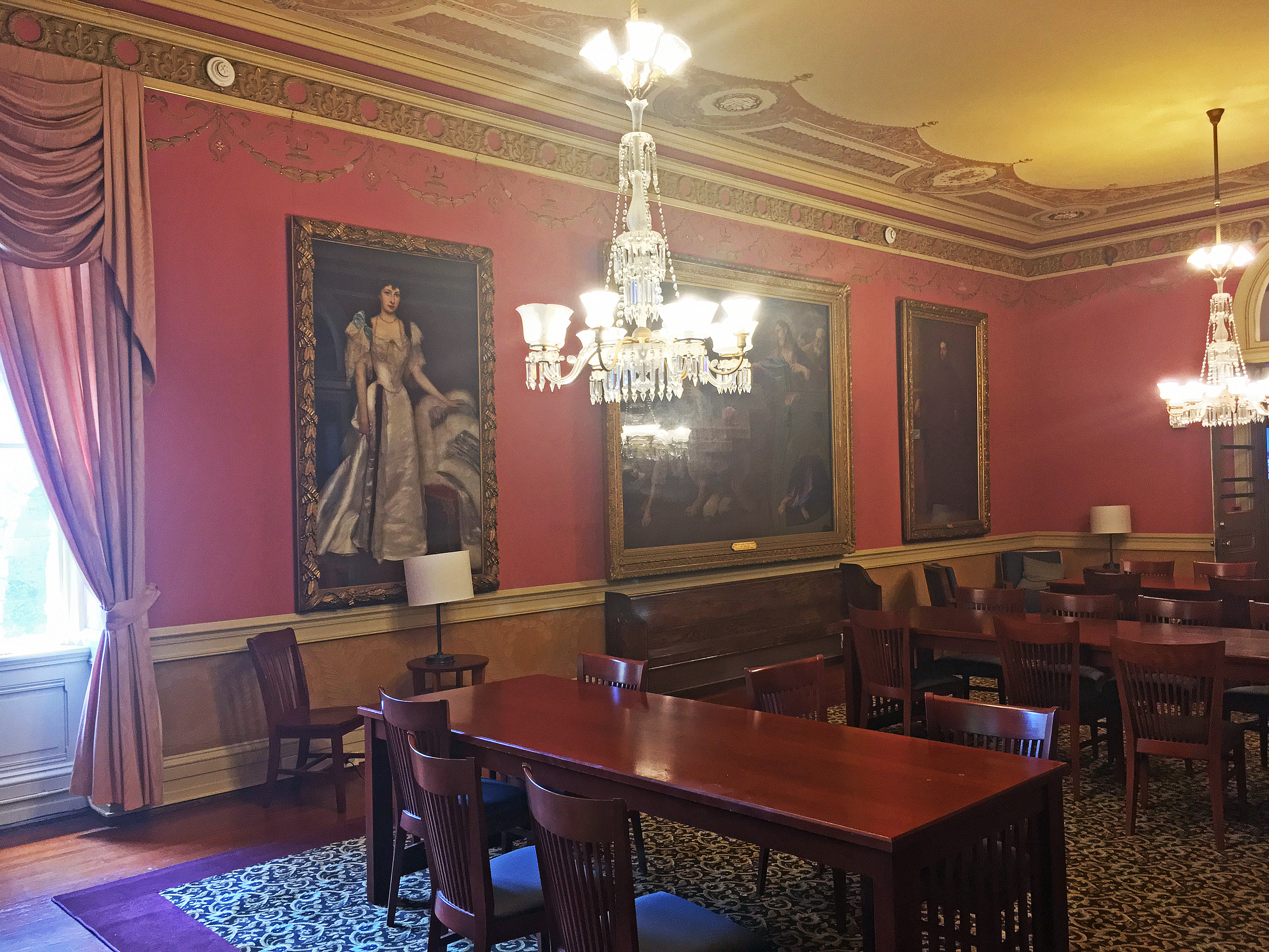 Senior Study Room inside the Healy Hall of Georgetown University. Previously an art exhibit area, the parlor was converted in 2015 into a study space for Georgetown's senior undergraduates.